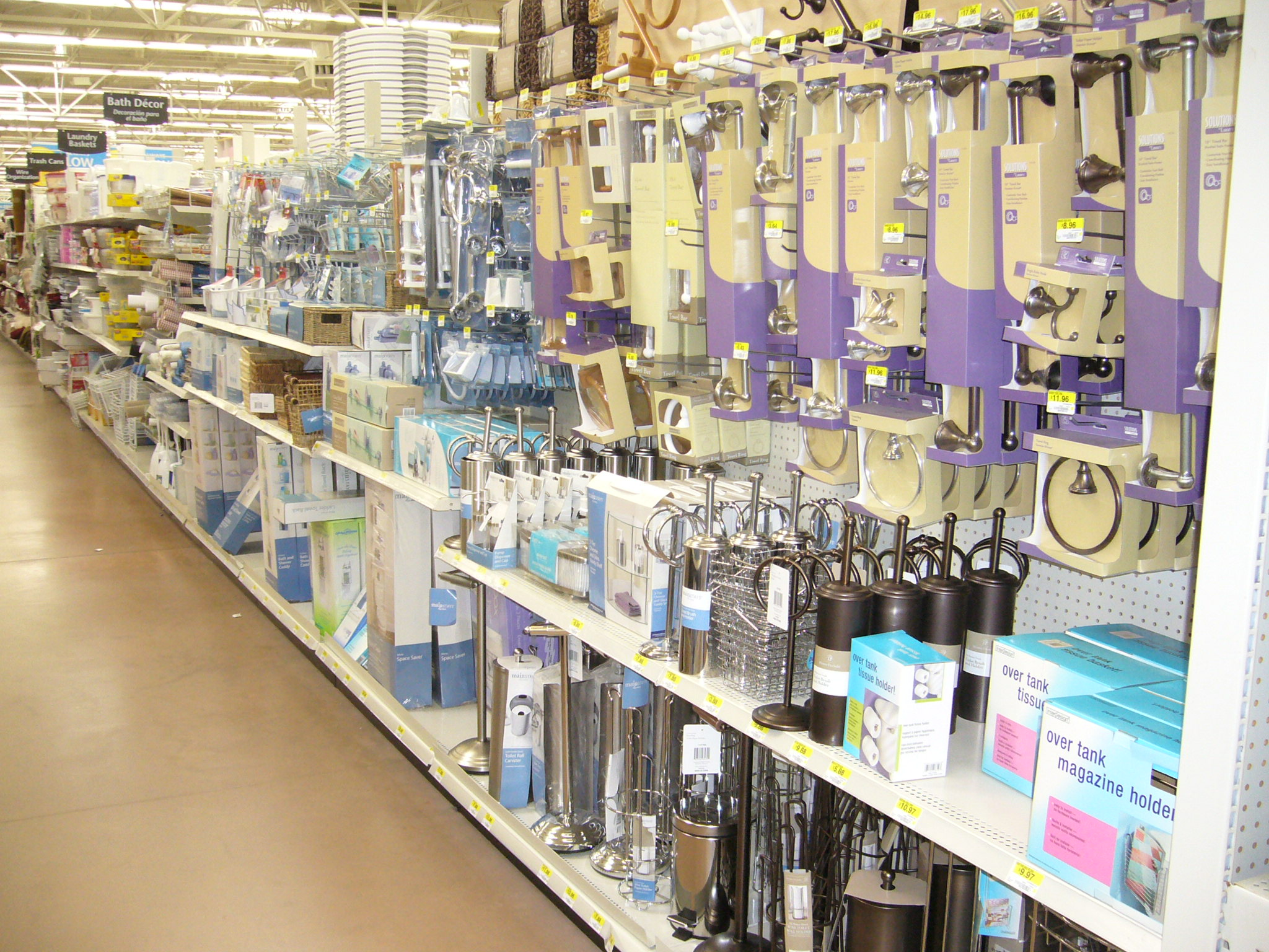 An aisle in Walmart showing the bathroom needs section